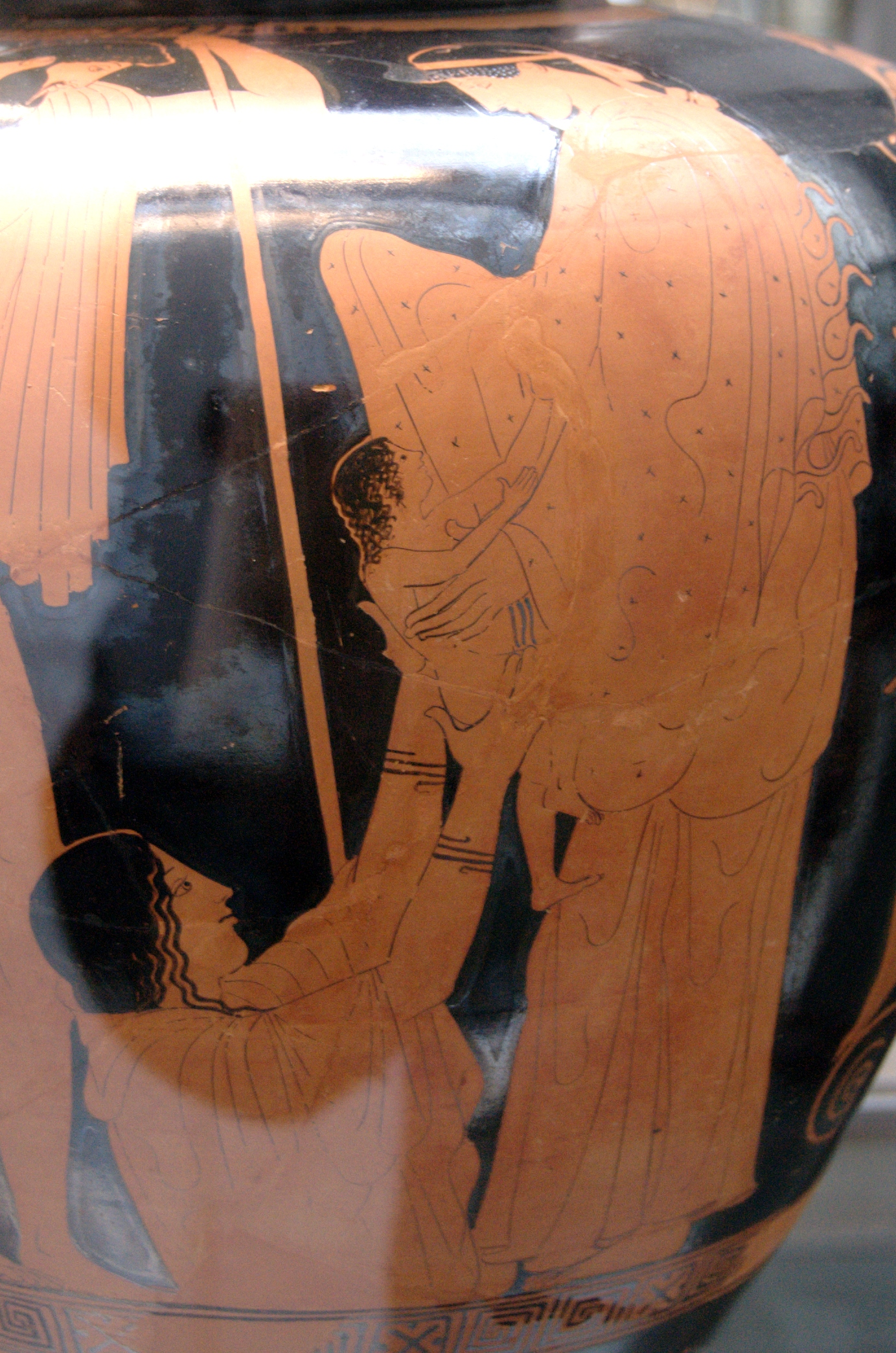 Birth of Erichtonius: Athena receives the baby Erichthonius from the hands of the earthmother Gaia. Hephaestus is watching the scene. Side A of an Attic red-figure stamnos, 470–460 BC.